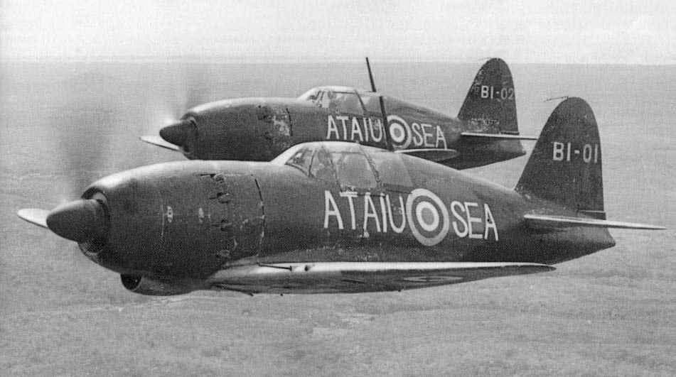 Japanese aircraft taken over by the Allies in British Malaya were tested and evaluated by Japanese naval aviators under close supervision of RAF officers from Seletar Airfield. Here two Mitsubishi J2M Raiden fighters (known to the Allies as 'Jack'), belonging to the 381 Kokutai of Imperial Japanese Navy Air Service, are flying in close formation during their evaluation flight.